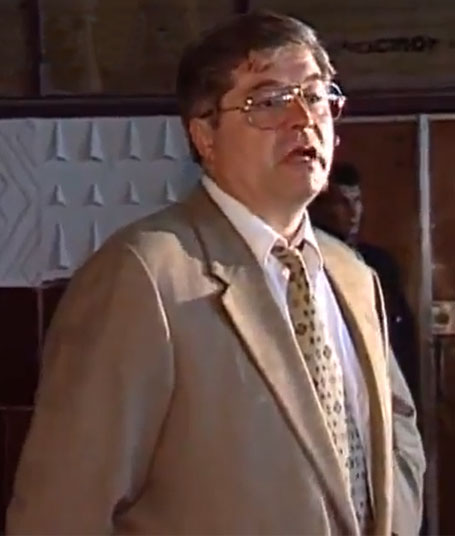 Pavlo Lazarenko, Ukrainian politician, former Prime Minister of Ukraine